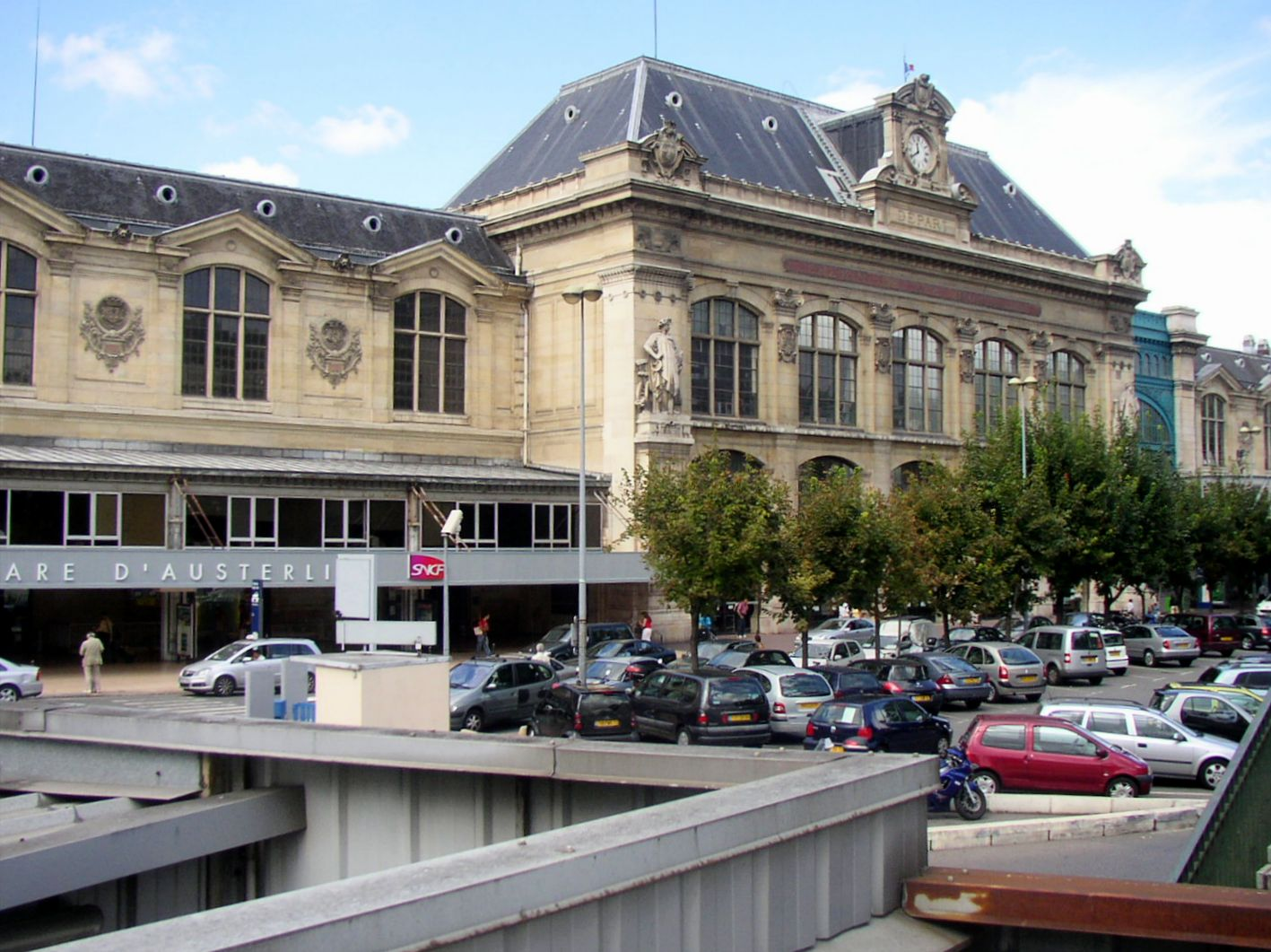 Building of Paris-Austerlitz railway station, in Paris, France.